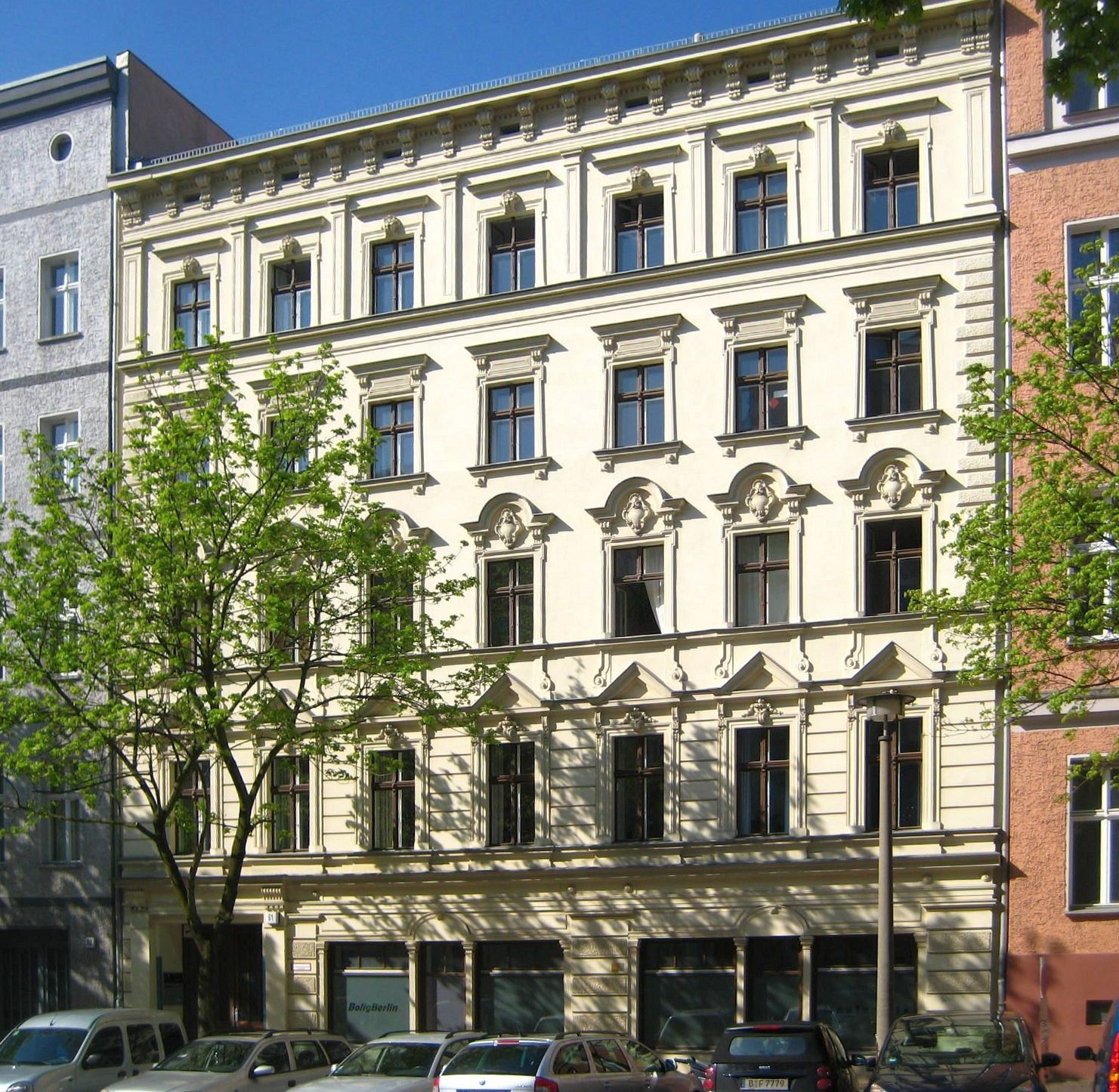 Residential building at Strelitzer Straße No. 61 in Berlin-Mitte. The house was built from 1888 to 1889 with a factory building in the rear. It has been designated as a historic landmark.